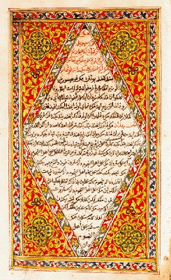 The frontispiece of a Jawi edition of the Sejerah Melayu or Malay Annals, a Malay literary work which is believed to have been commissioned in 1612 by the Regent of Johor, the Yang di-Pertuan Di Hilir Raja Abdullah (Raja Bongsu, later His Royal Highness Sultan Abdullah Mu'ayat Syah ibni Sultan Abdul Jalil Syah). It was compiled and edited by Tun Sri Lanang.